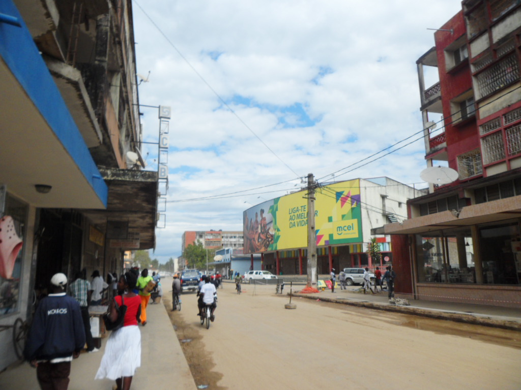 Águia cinema in Quelimane, Mozambique